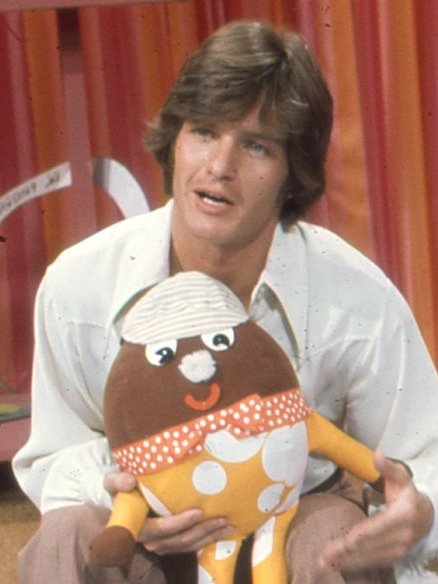 Gordon Thompson and Nina Keogh on the set of Polka Dot Door (1971)